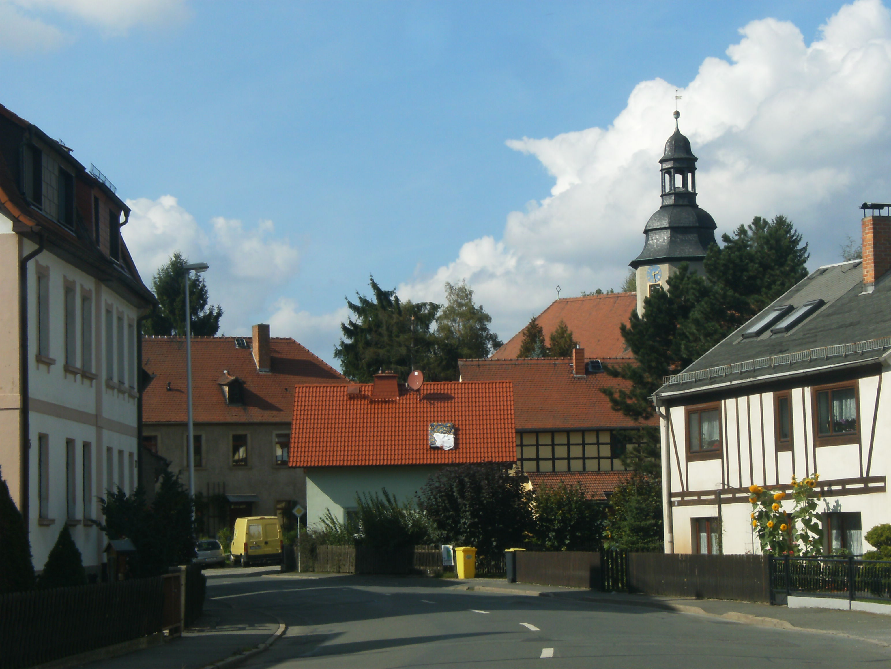 View of Gera-Frankenthal.